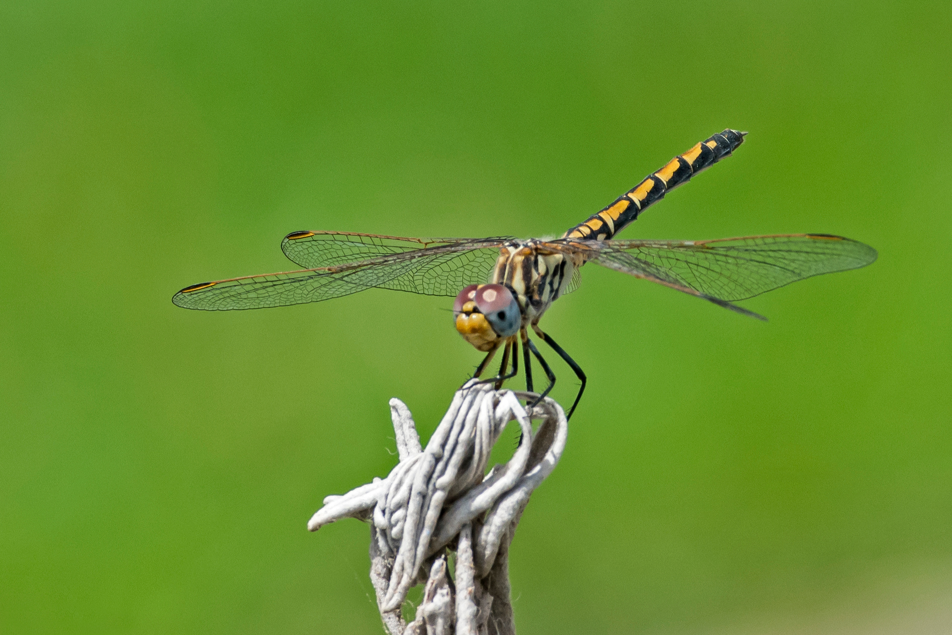 Trithemis arteriosa, female